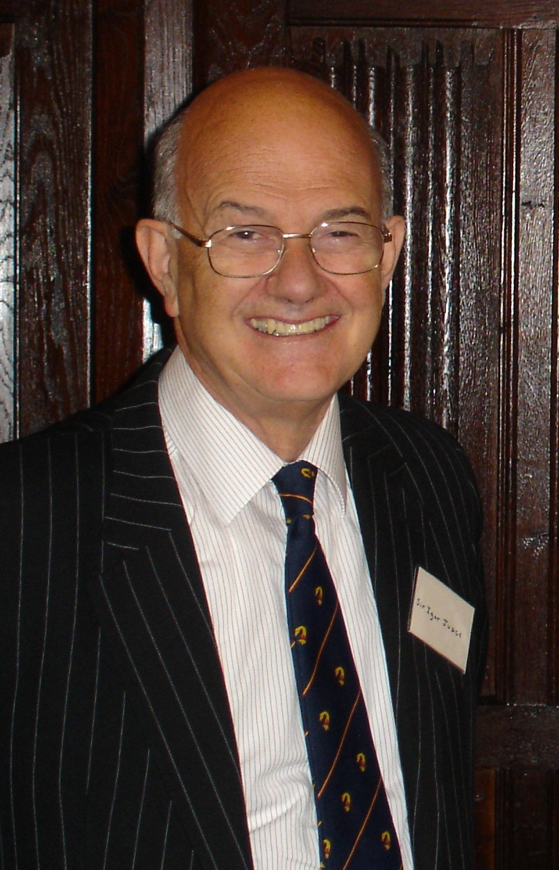 Igor Judge, appointed Lord Chief Justice of England and Wales in 2008, but at the time of this photograph he was President of the Queen's Bench Division